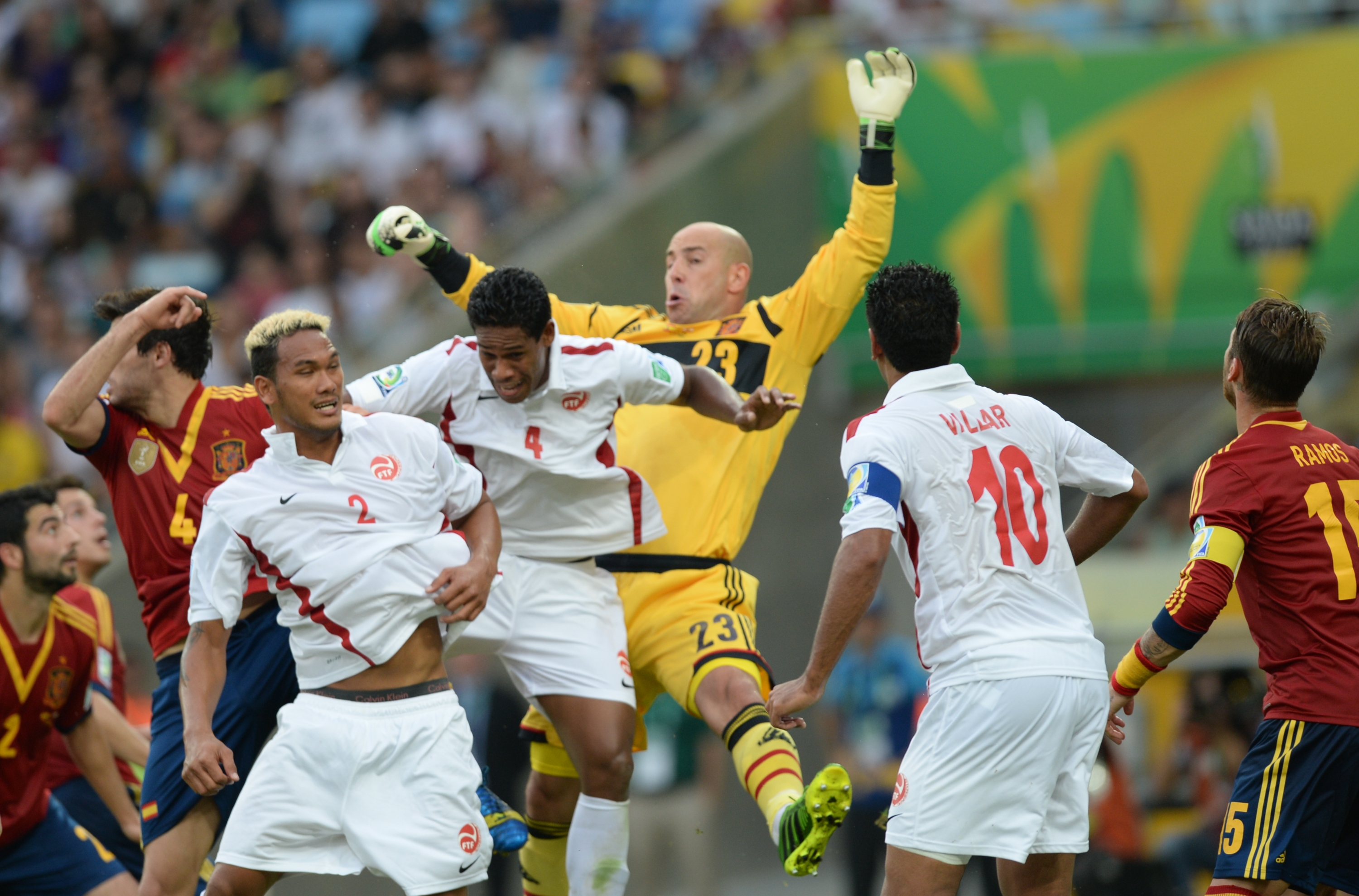 Match Spain vs Tahiti, Confederations Cup 2013